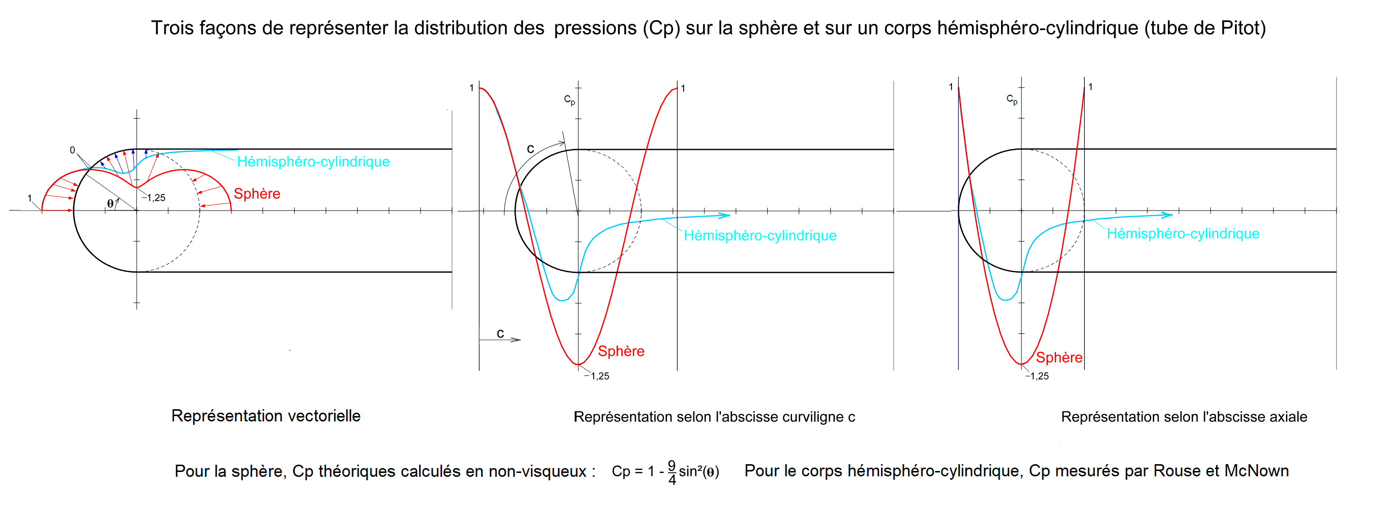 3 representation of the pressure distribution on the sphere and the Pitot tube. The distribution on the sphere is the theoretical one (inviscid), the distribution on the Pitot tube (hemisphere followed by the cylindrical part) has been measured by Rouse and McNown (in "Cavitation and pressure distribution, head forms at zero angle of yaw").